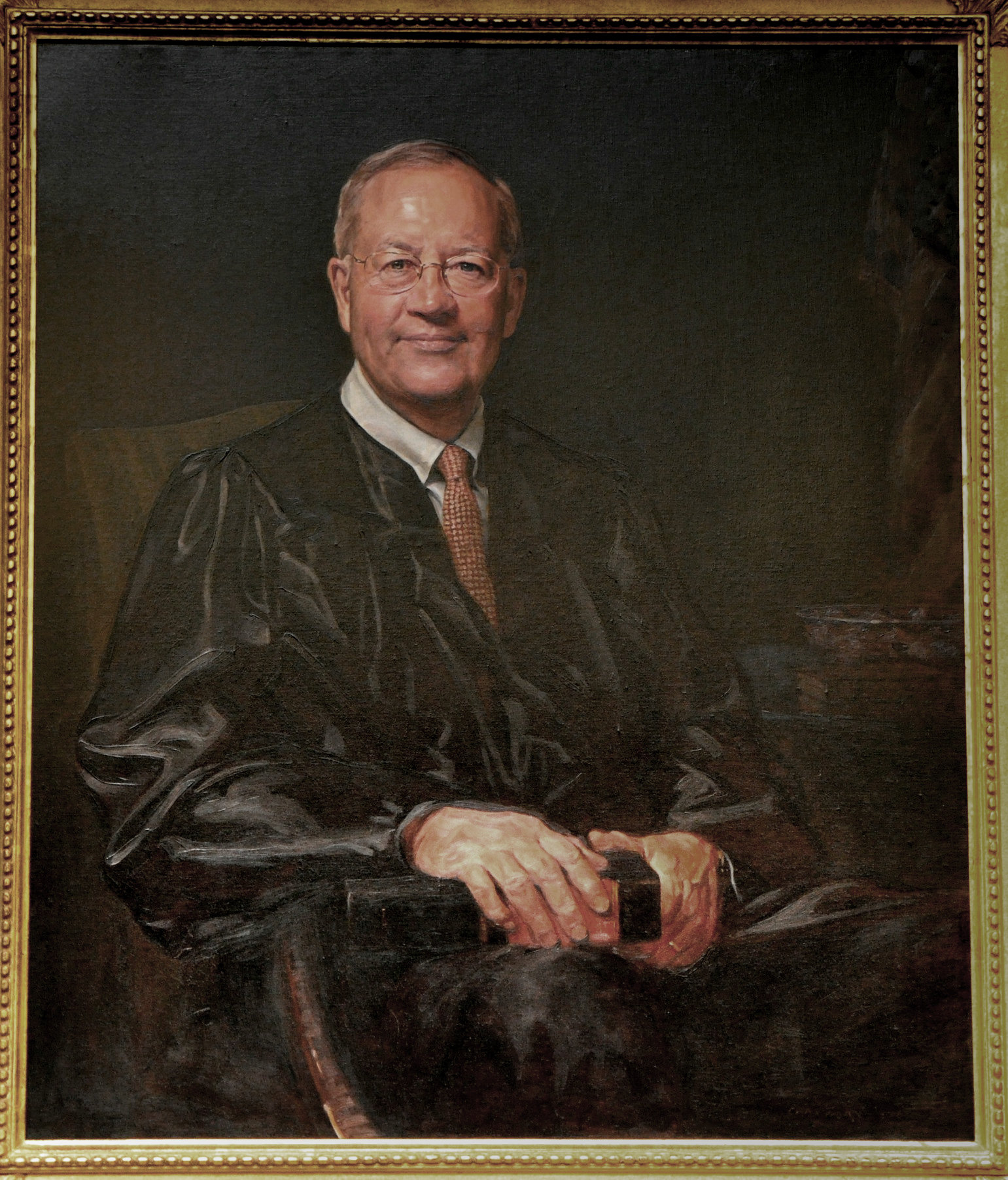 Kenneth Winston Starr United States Circuit Judge